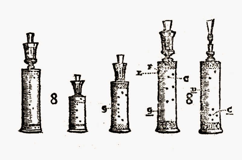 Syntagma Musicum Theatrum Instrumentorum seu Sciagraphia Wolfenbüttel 1620 This is a crop of Image:Syntagma07.png, showing Raketts